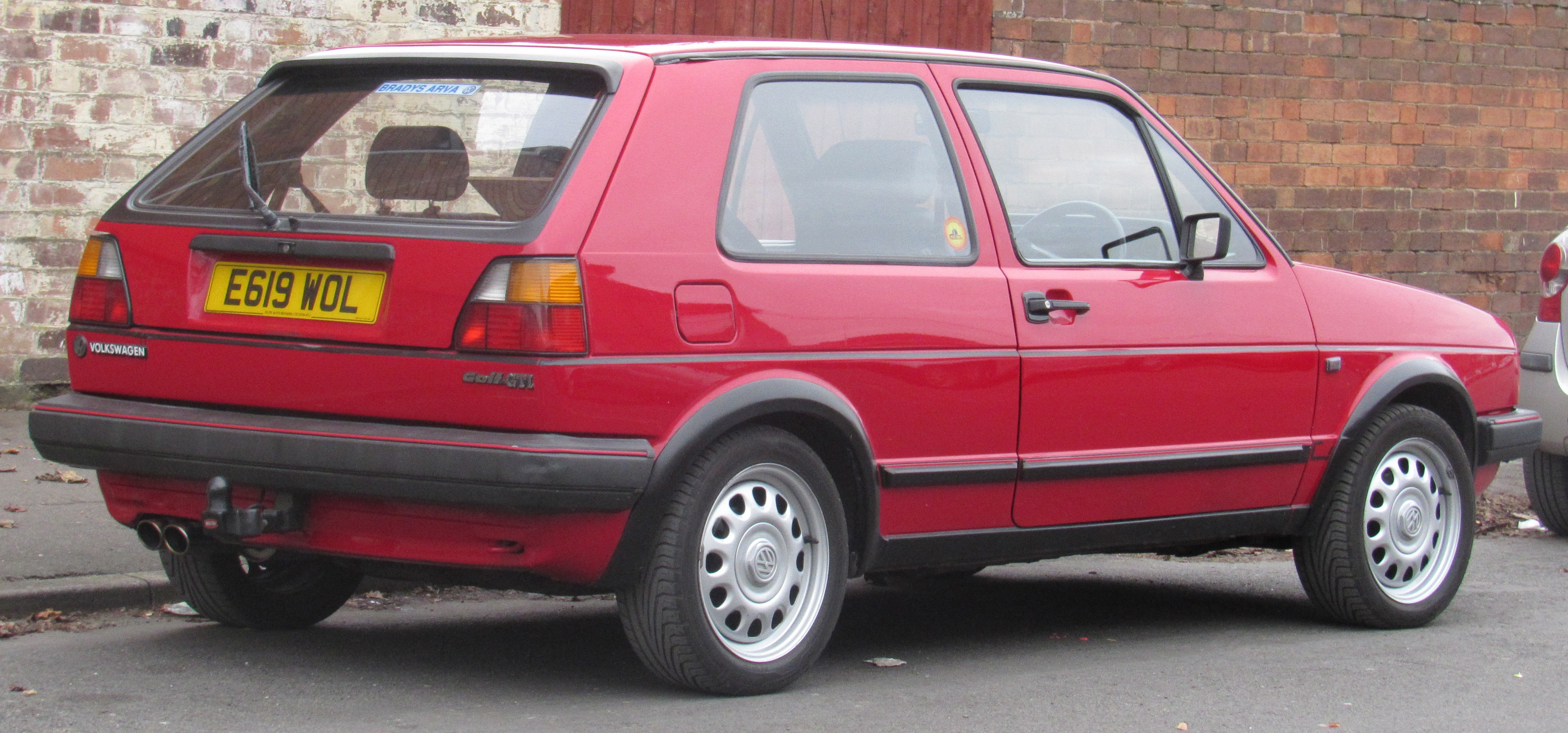 1987 Volkswagen Golf GTi 1.8 Rear Taken in Leamington Spa